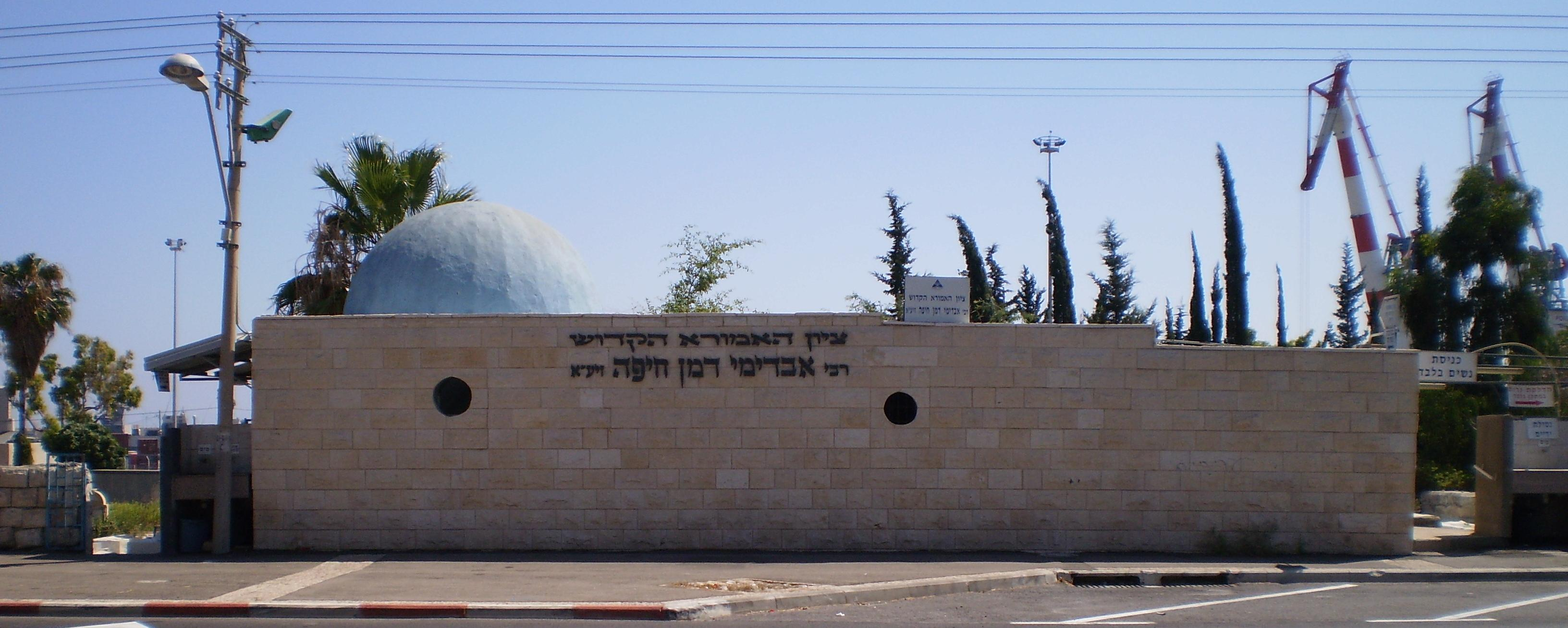 Grave of Avdimi dmin Haifa